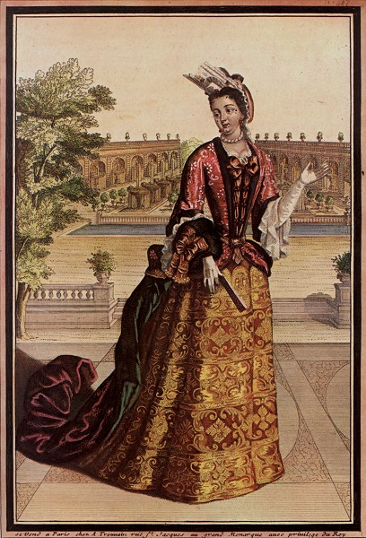 Comtess Mailly